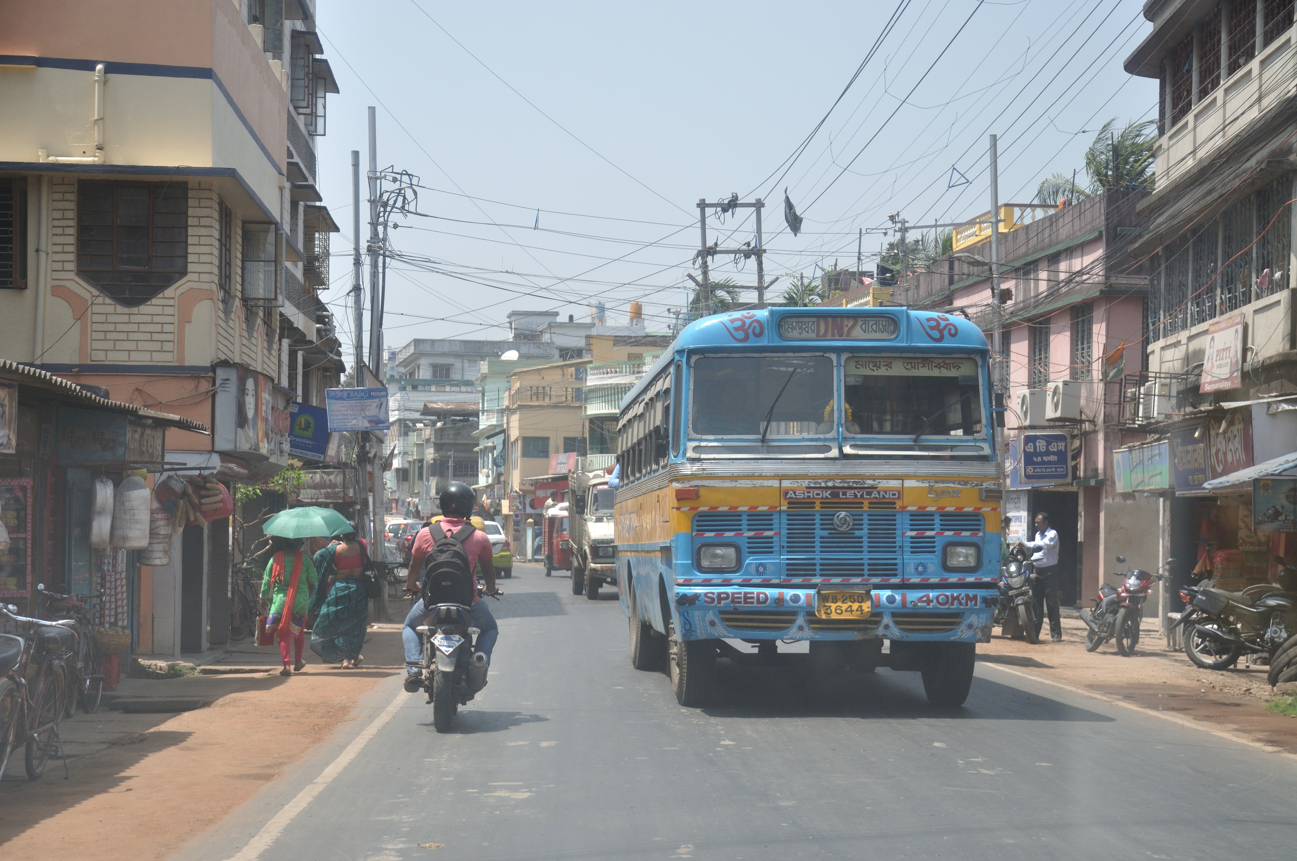 This photograph was taken in Kolkata, West Bengal.